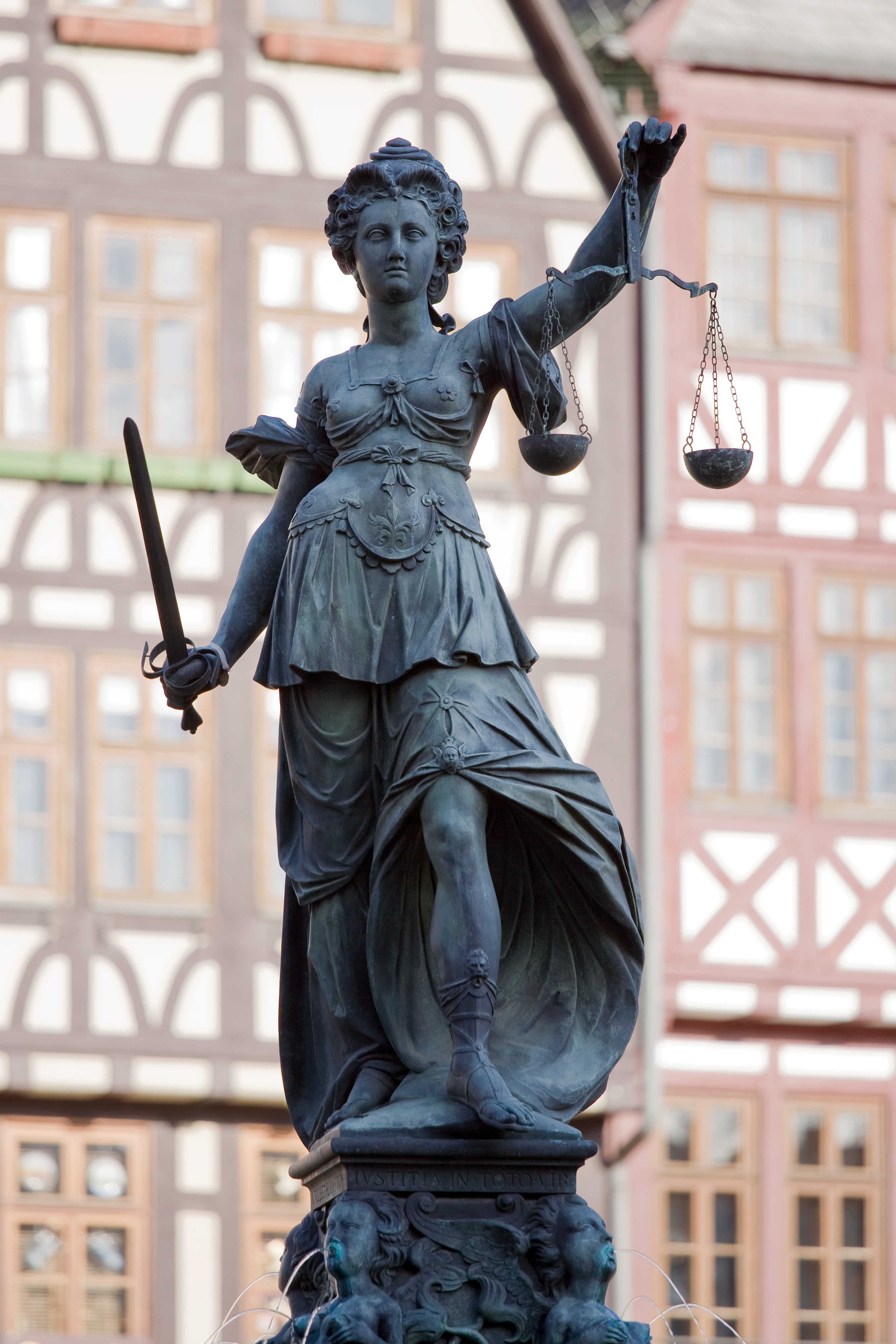 Frankfurt on the Main: Gerechtigkeitsbrunnen (Fountain of Justice), detail of the Lady Justice as seen from the west